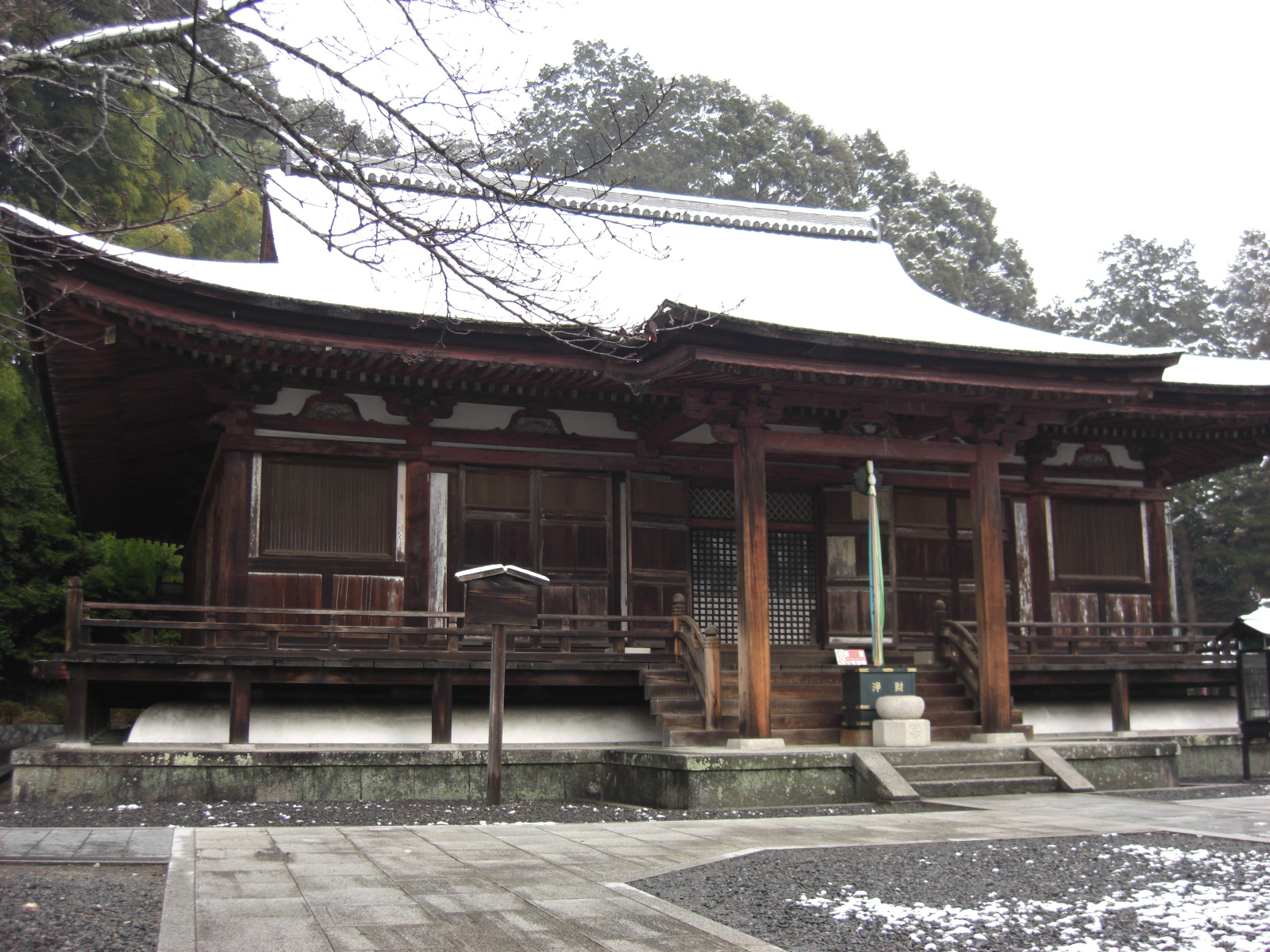 Mail Hall of Chokyu-ji temple in Nara, Japan, a National Treasure